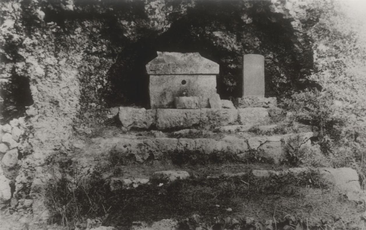 Tomb of Noguni Sokan, Kadena, Okinawa, Japan